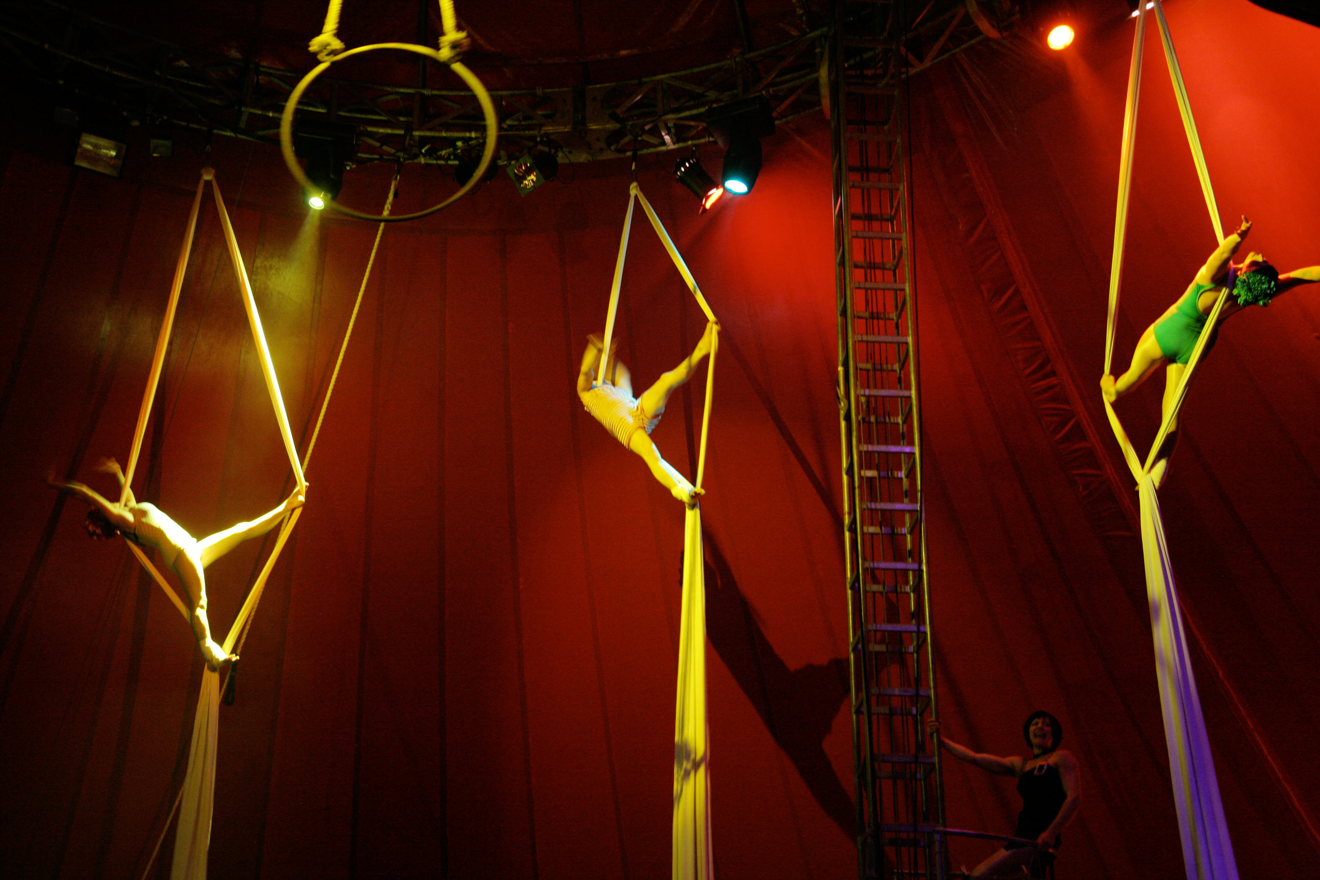 Circus, drama, text, dance and music by Nofit State Circus at Junction 7.06